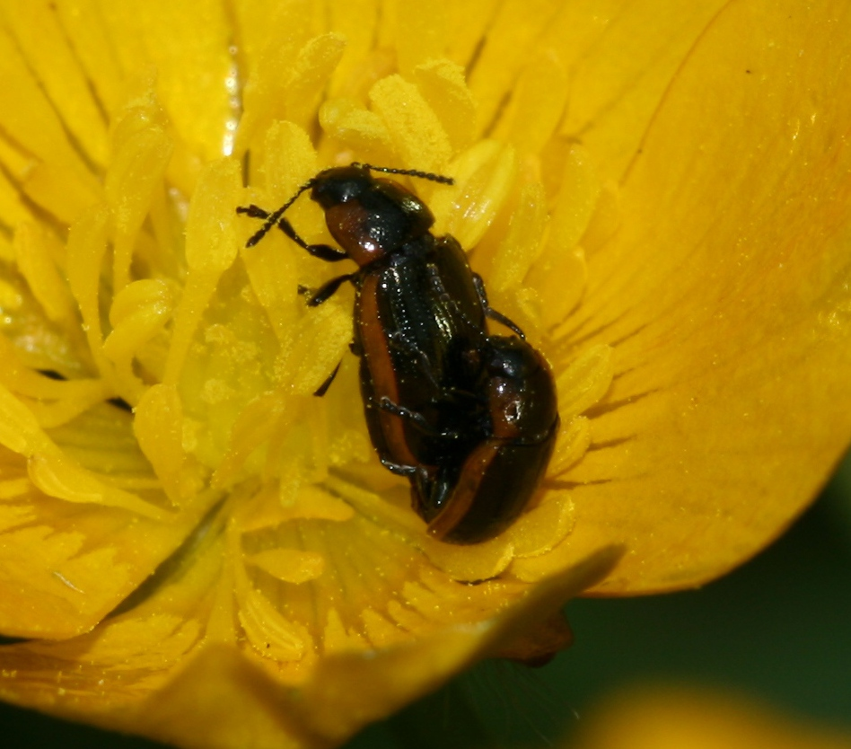 Milkhall Pond SWT reserve, Midlothian, Scotland NT241572 Ref